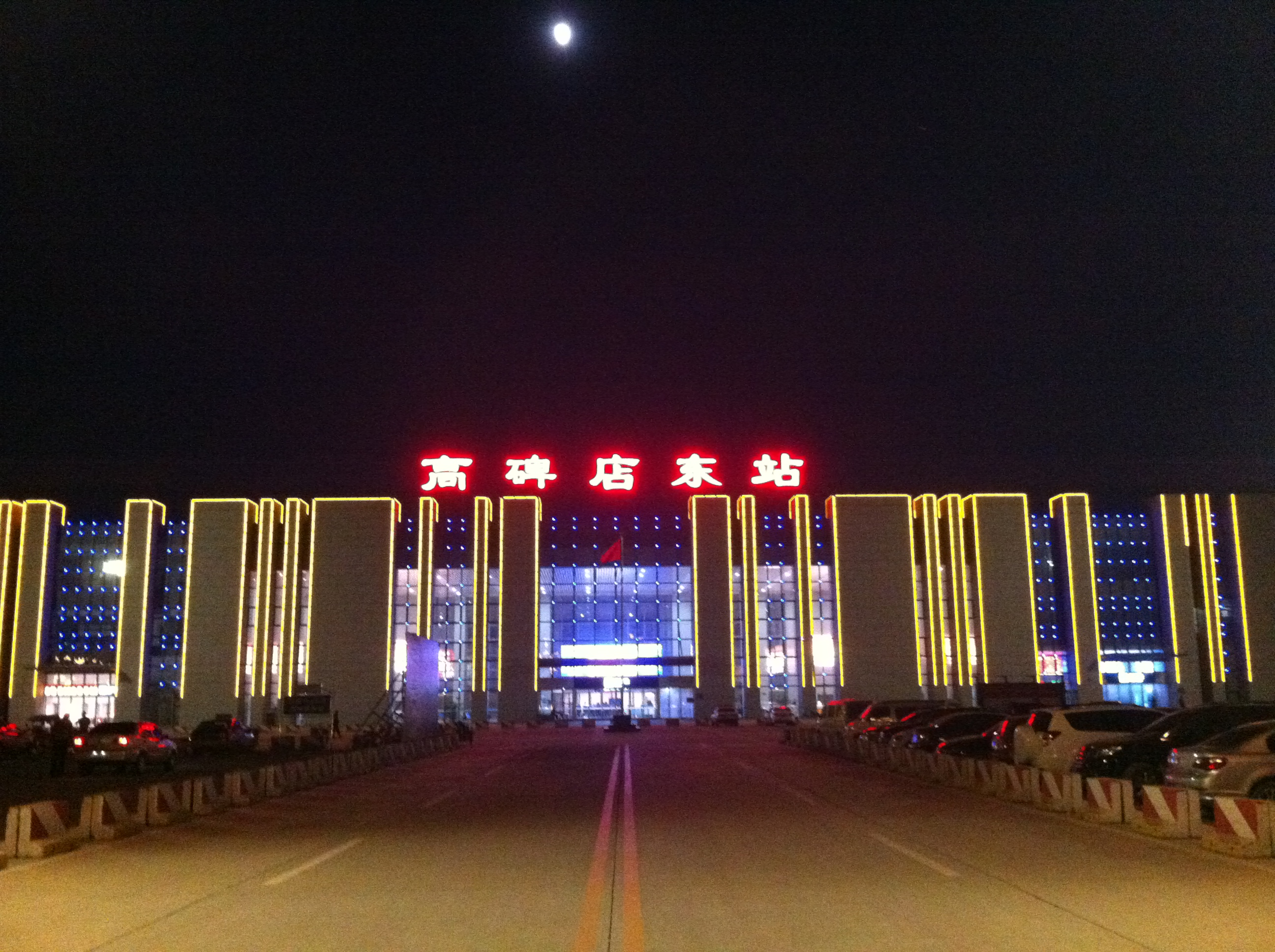 Gaobeidian East Station, the new high-speed railway station. It resembles what Gaobeidian is famous for...shredded dried tofu!